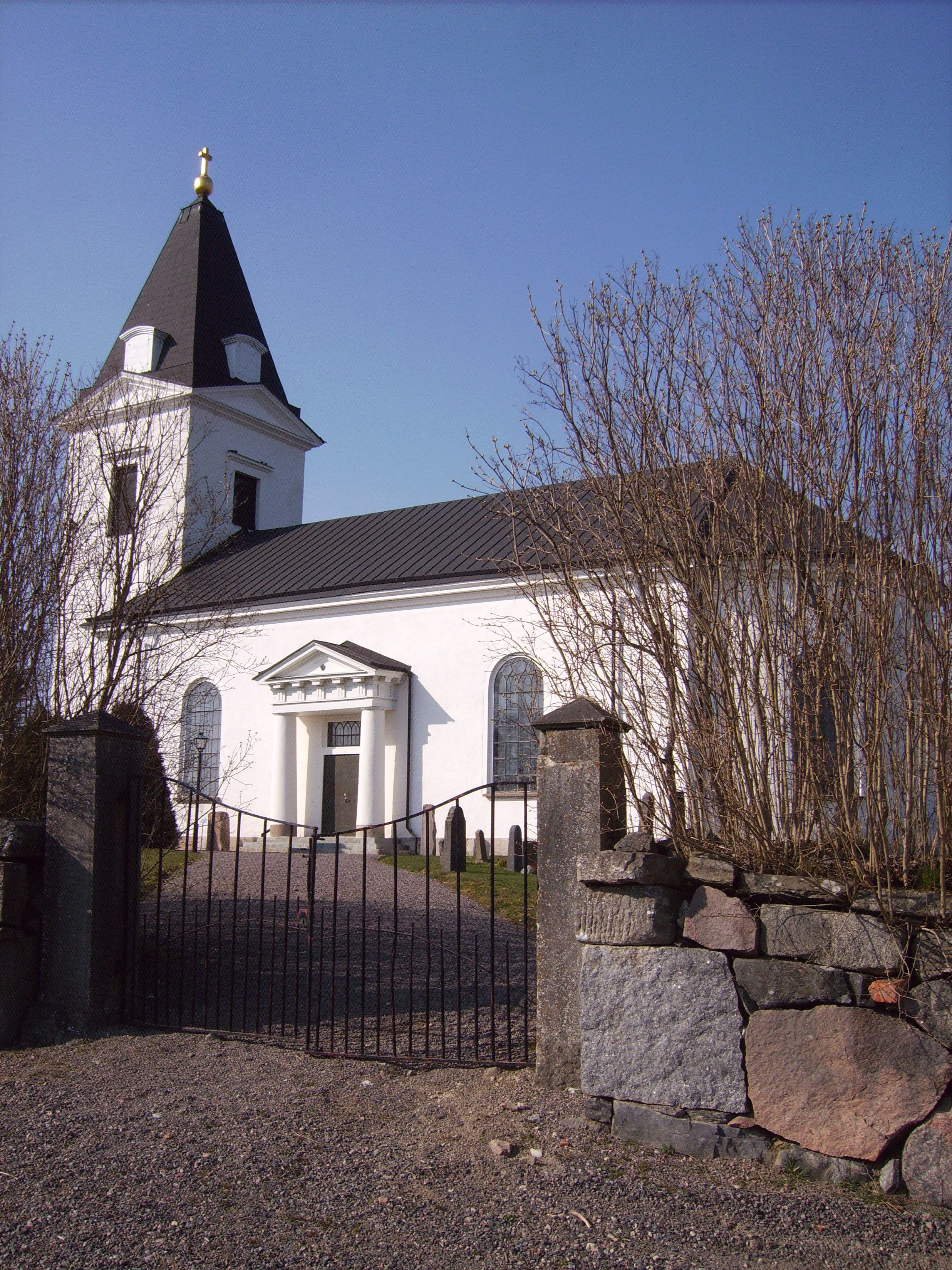 The church in Konungsund, Norrköping, Sweden. The church of today was built 1801-1802, over a medieval church place from 1300th century.